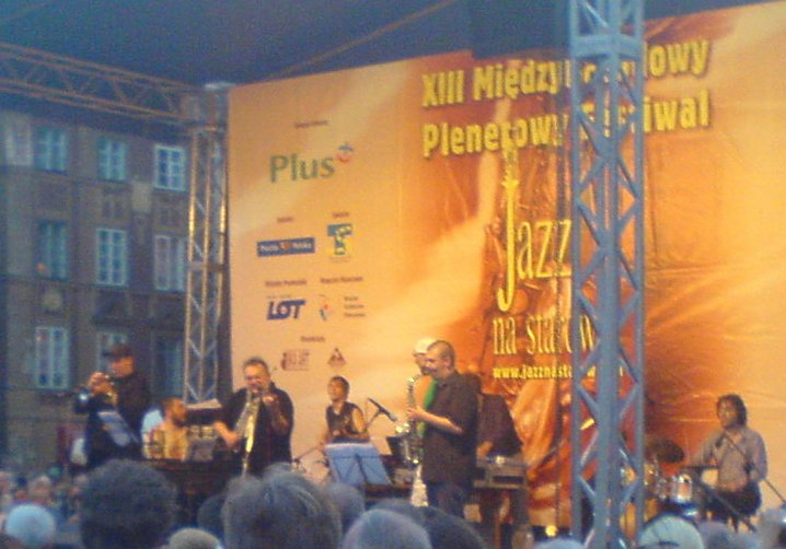 Michał Urbaniak (violin) with polish musicians on "XIII Jazz na Starówce" (Old Town Square in Warsaw, Poland)